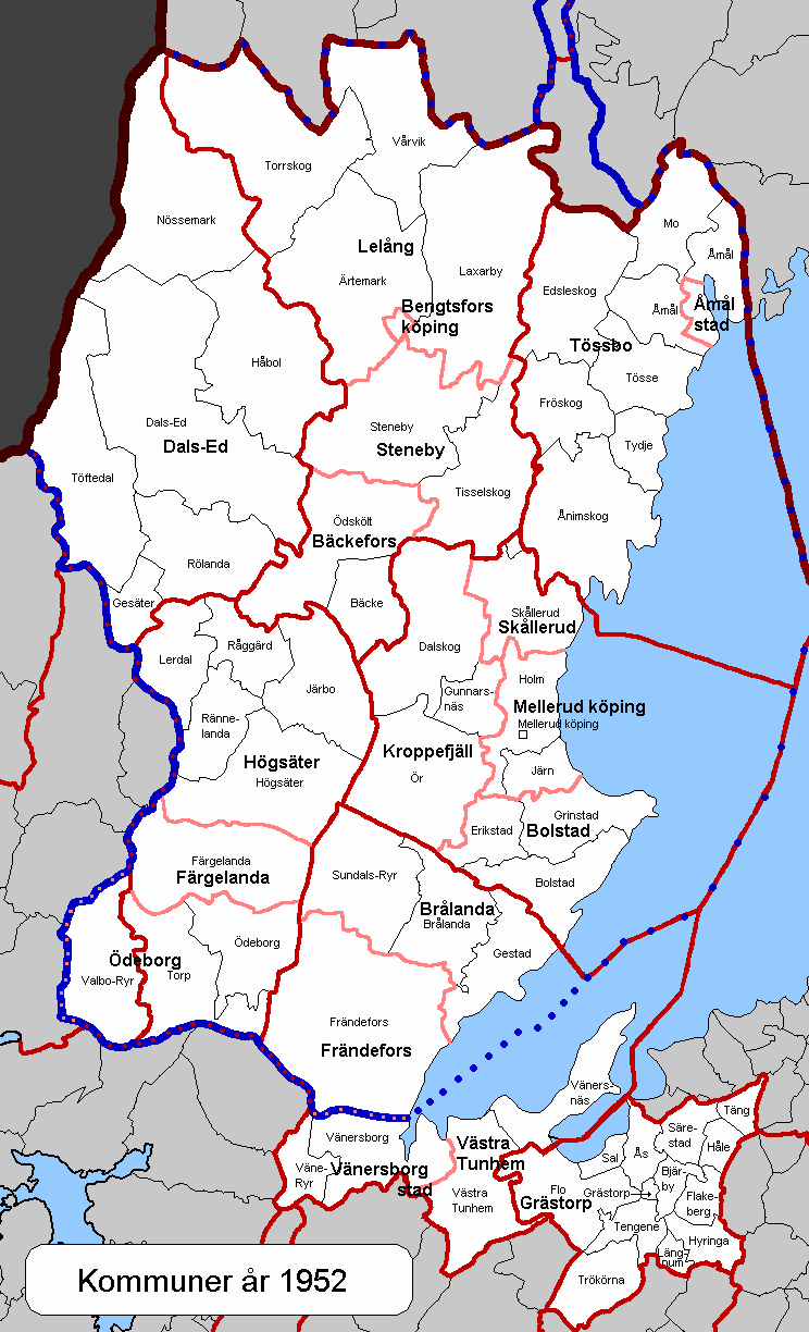 Old municipalities in Dalsland